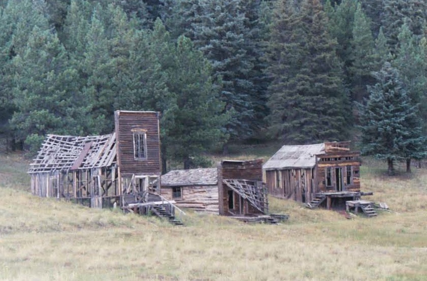 Movie set on the edge of Valle Grande, Valles Caldera National Preserve, New Mexico, USA